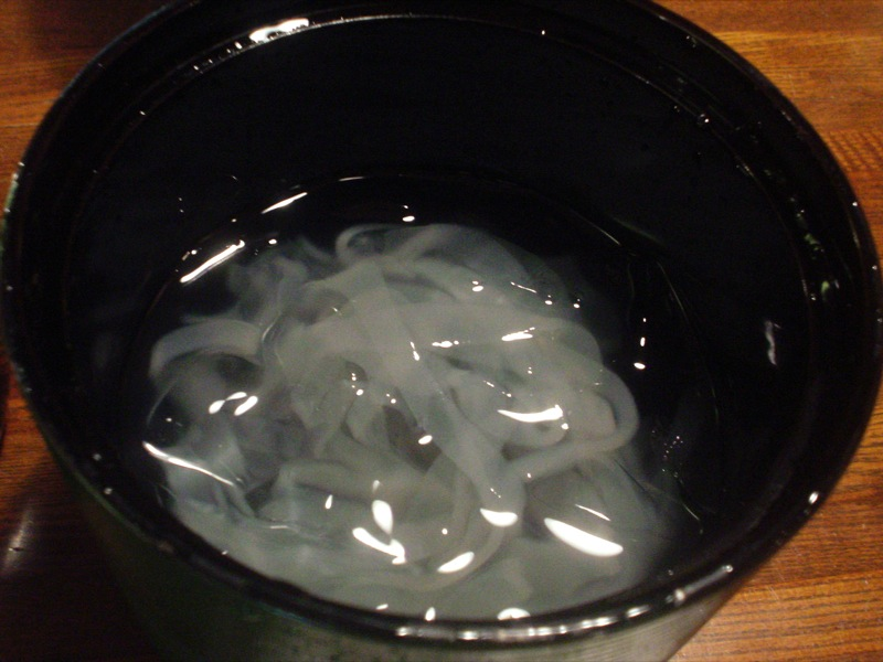 Tea room in a wagashi shop